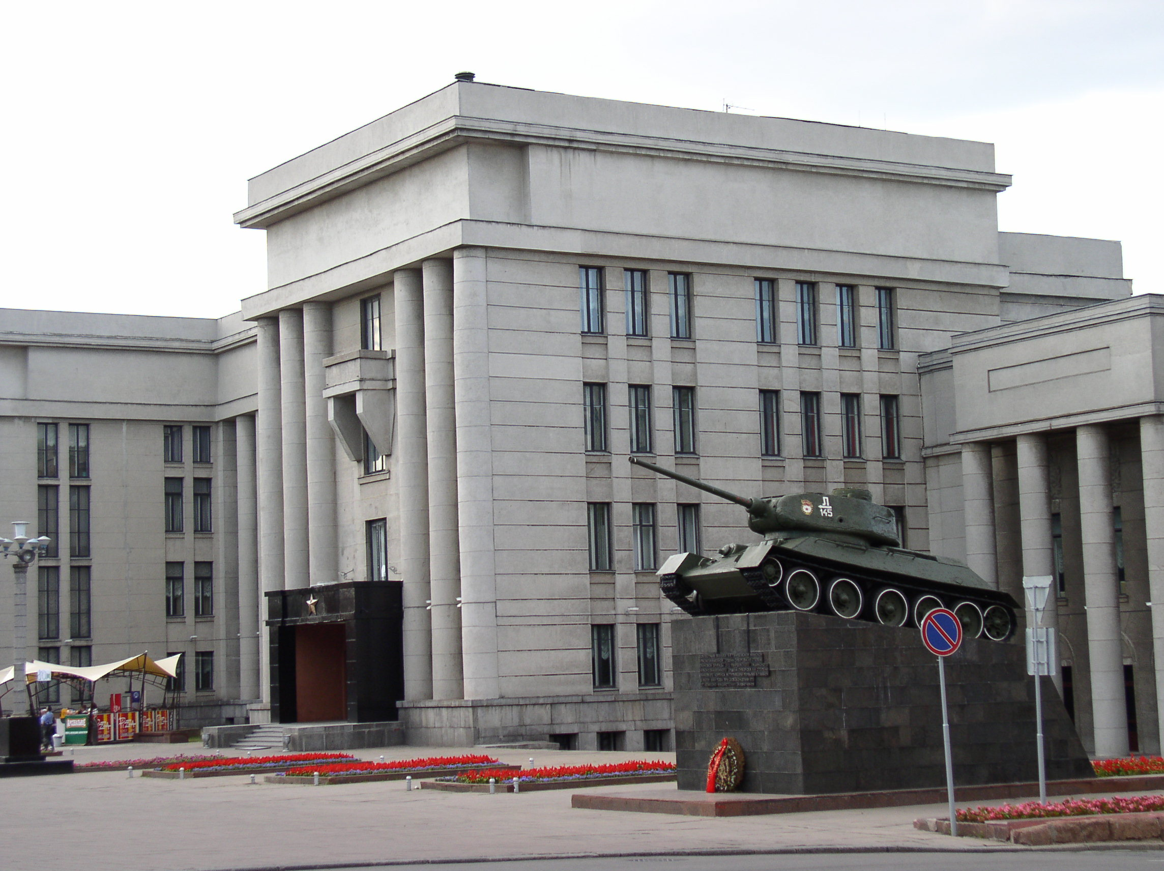 Army Palace and Tank monument, Minsk, Belarus.